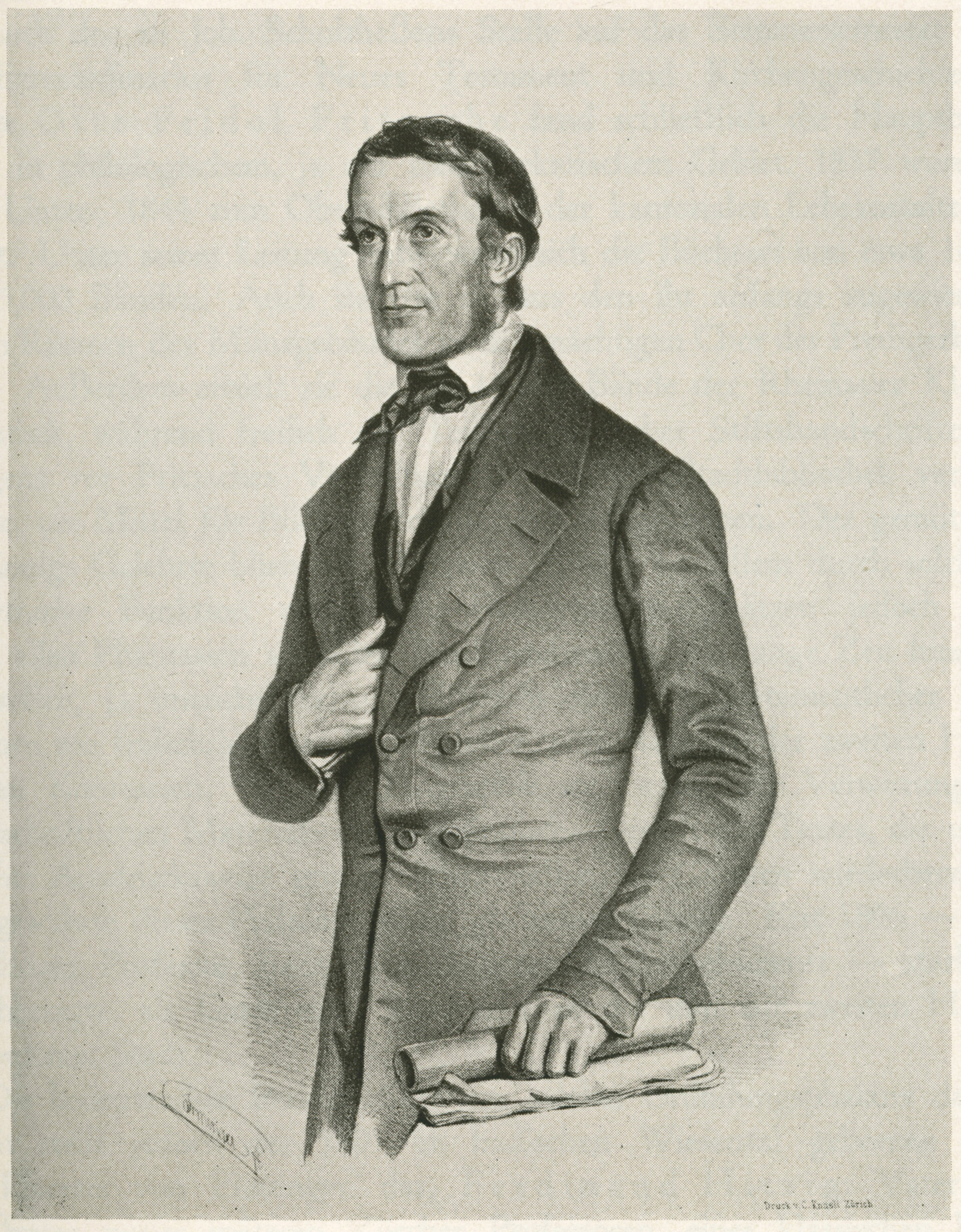 Lithography of Ferdinand Hitzig (1807–1875)